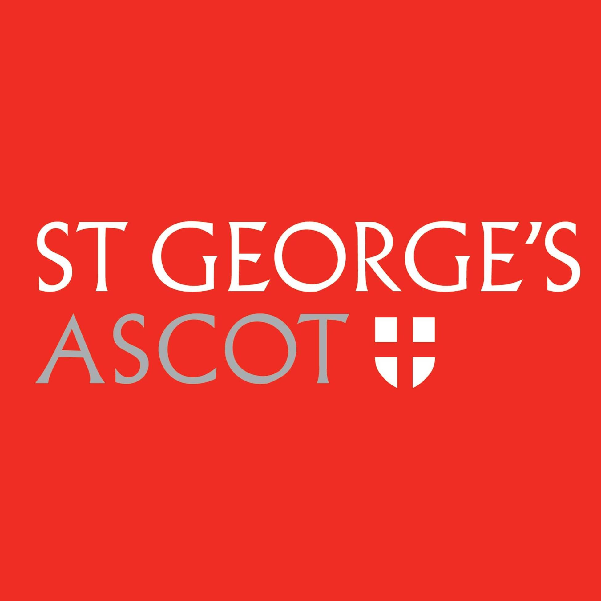 St George's Ascot Logo